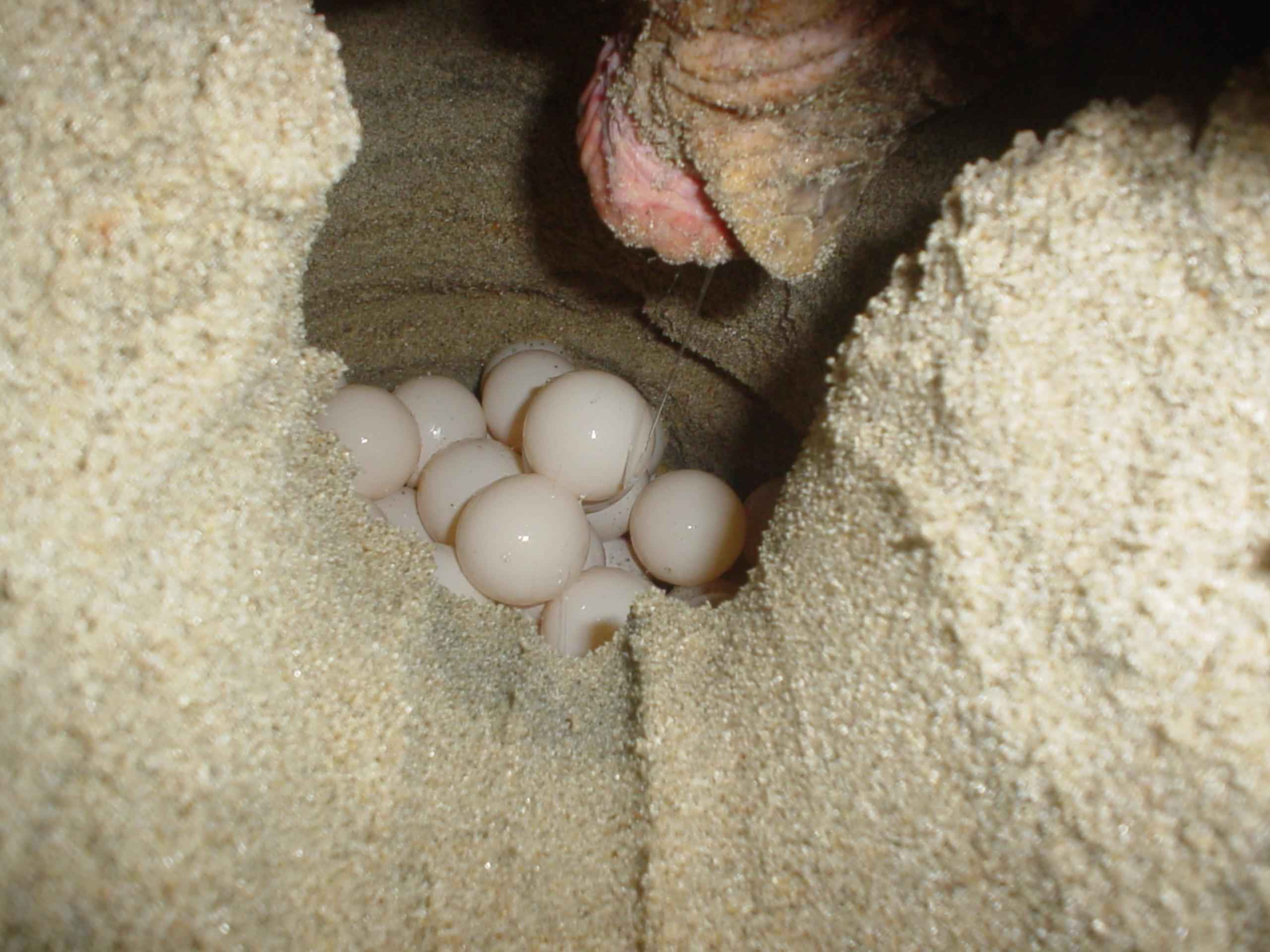 Image title: Loggerhead turtle eggs Image from Public domain images website